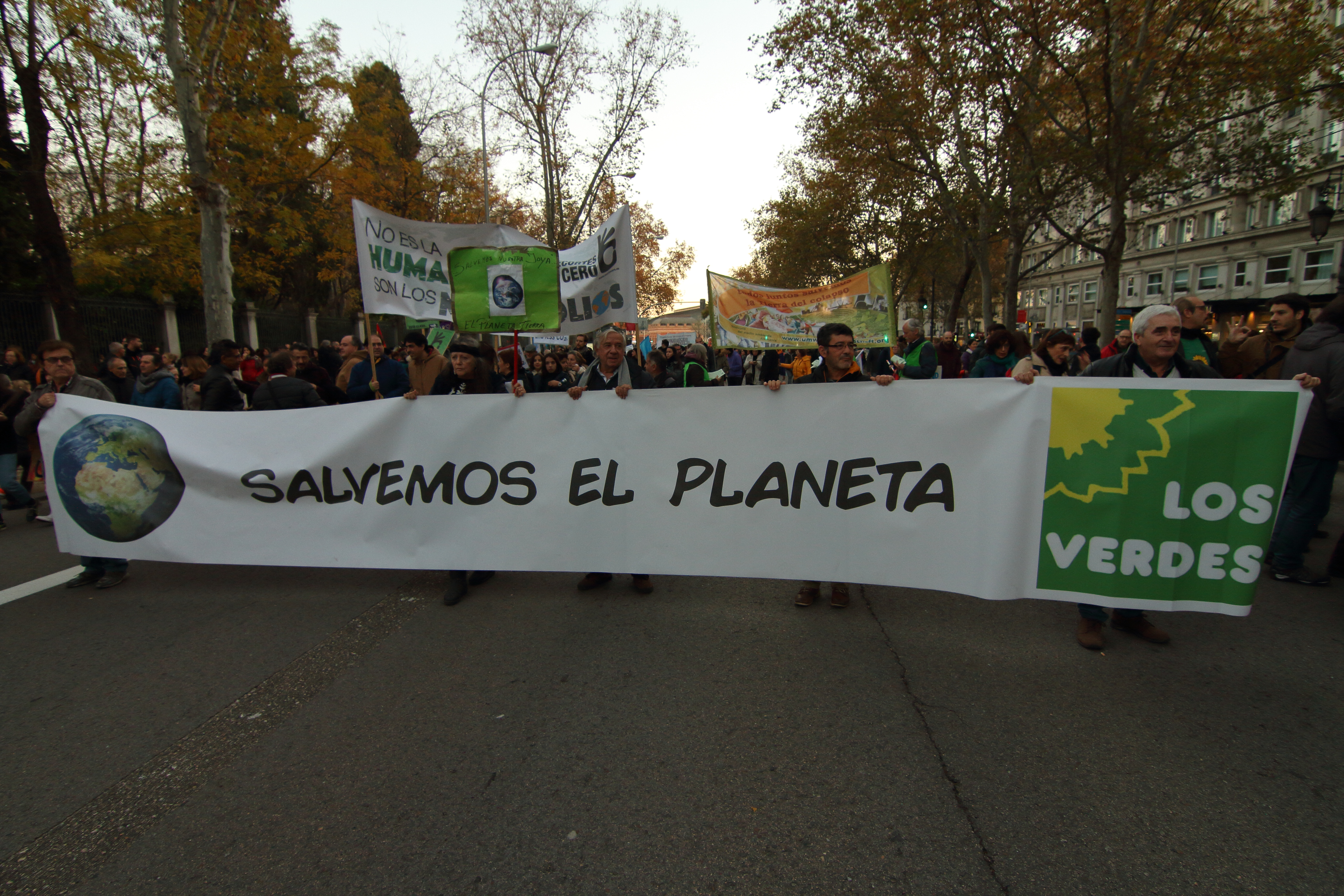 Climate March in Madrid, friday December 6, 2019 on the sidelines near the 2019 United Nations Climate Change Conference (COP 25), people holding a banner with text "Salvemos El Planeta" (Los Verdes) - Rescue the Planet, ...